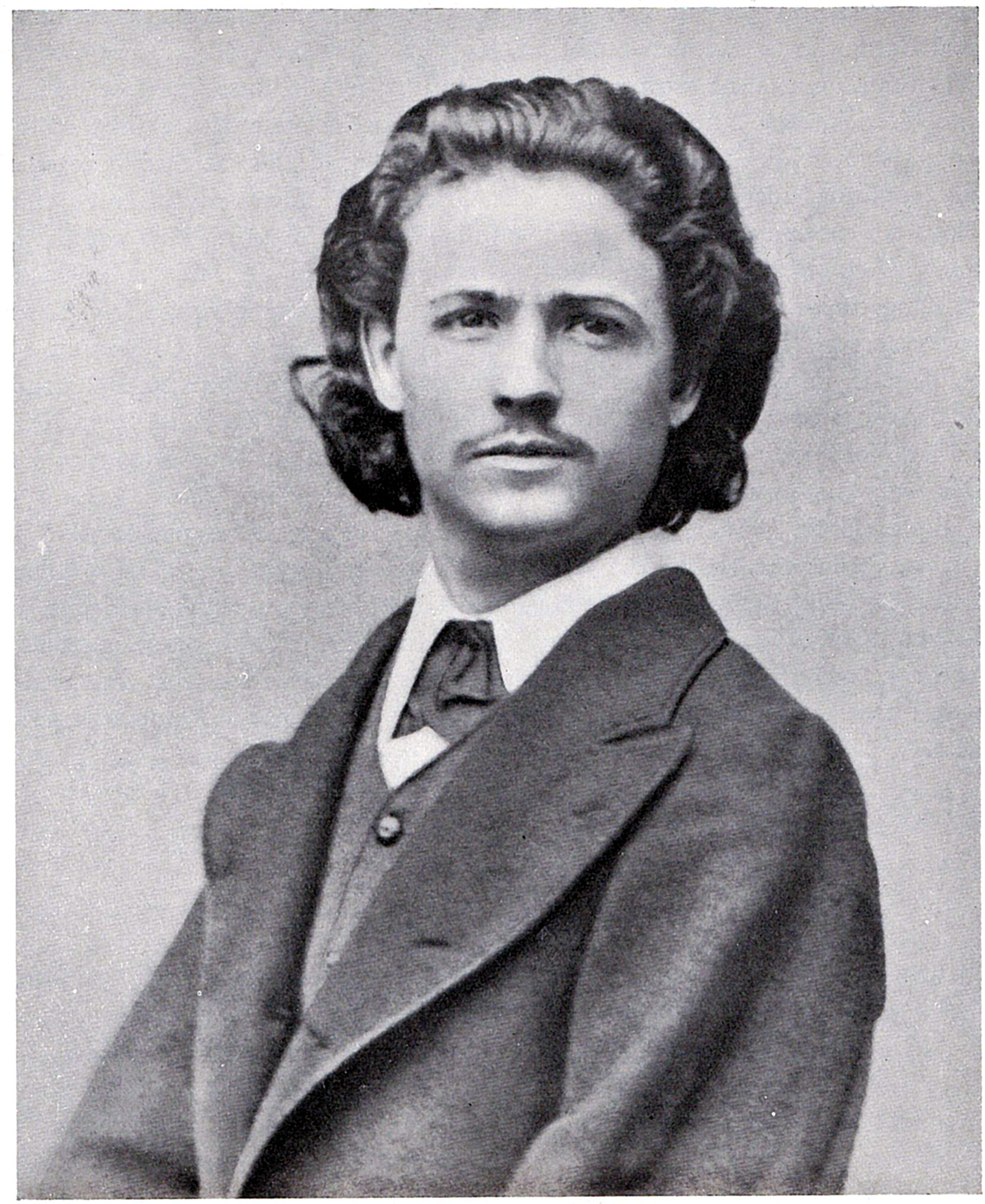 Nicolae Grigorescu, age 22 (1860)